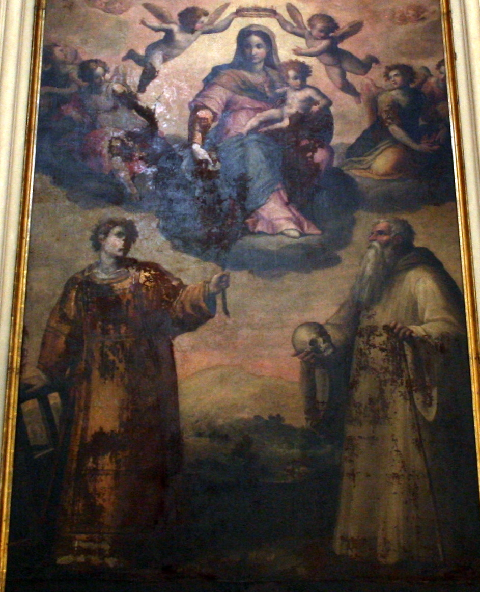 The painting traditionally exposed unitll XVIII century outside the San Lorenzo Church on Festa del Perdono (Holy Pardon Day) in Montevarchi